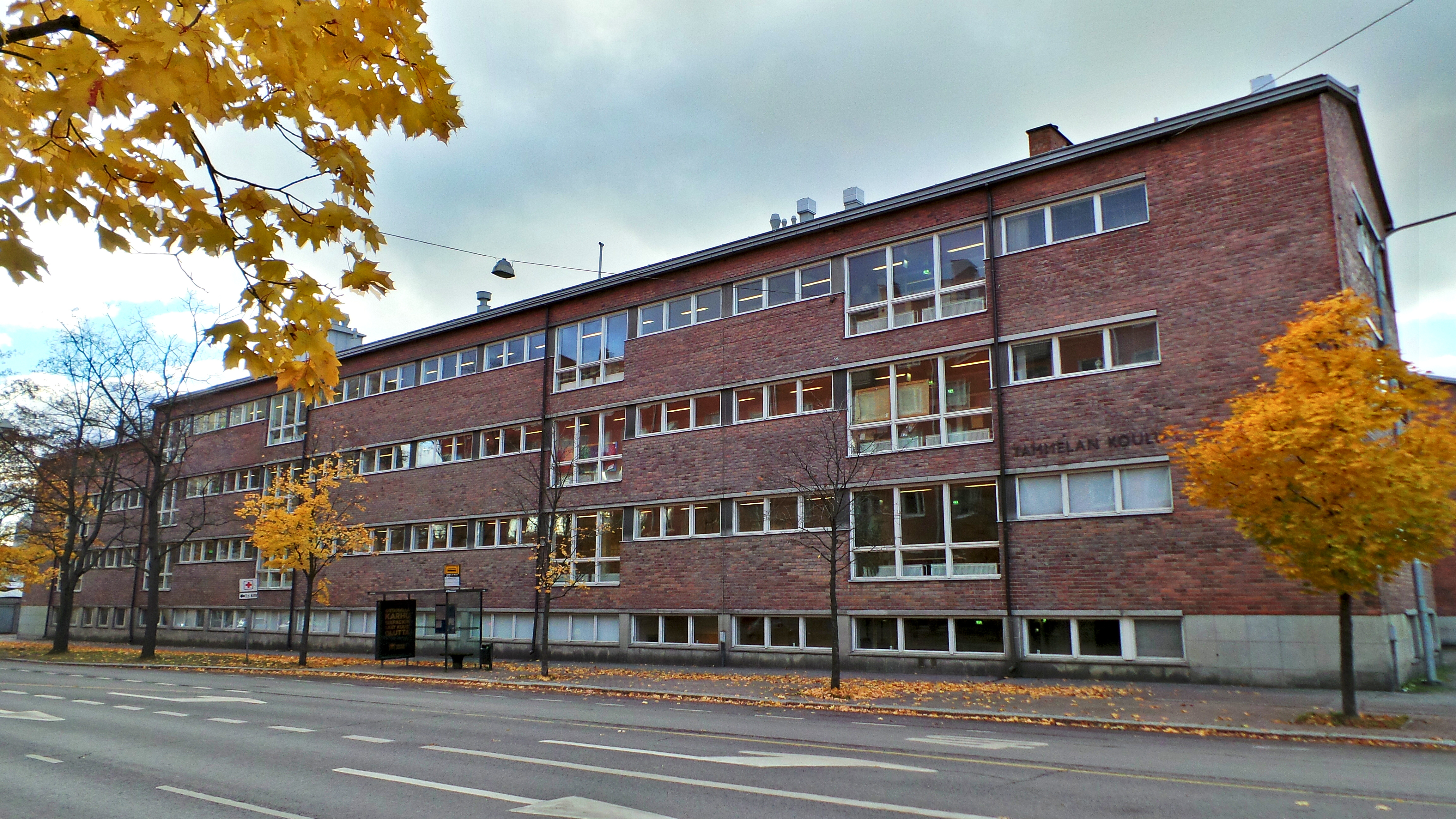 Tammela school in Tammela district at Tampere, Finland